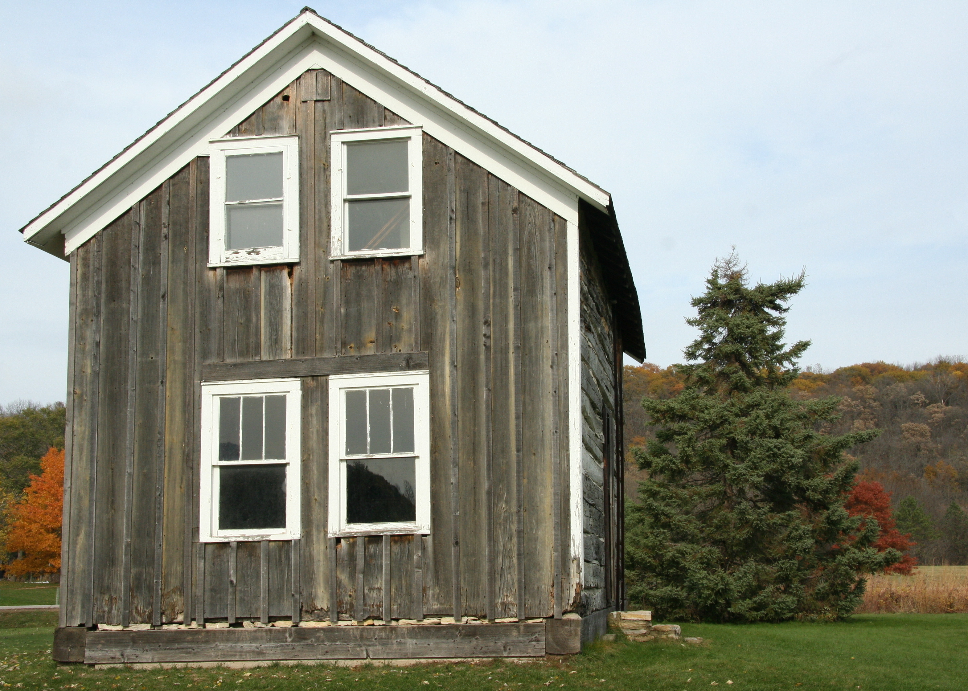 The south side of the Helleckson Homestead House, built by Norwegian immigrants to the United States circa 1850, preserved in Oxbow Park, Olmsted County, Minnesota